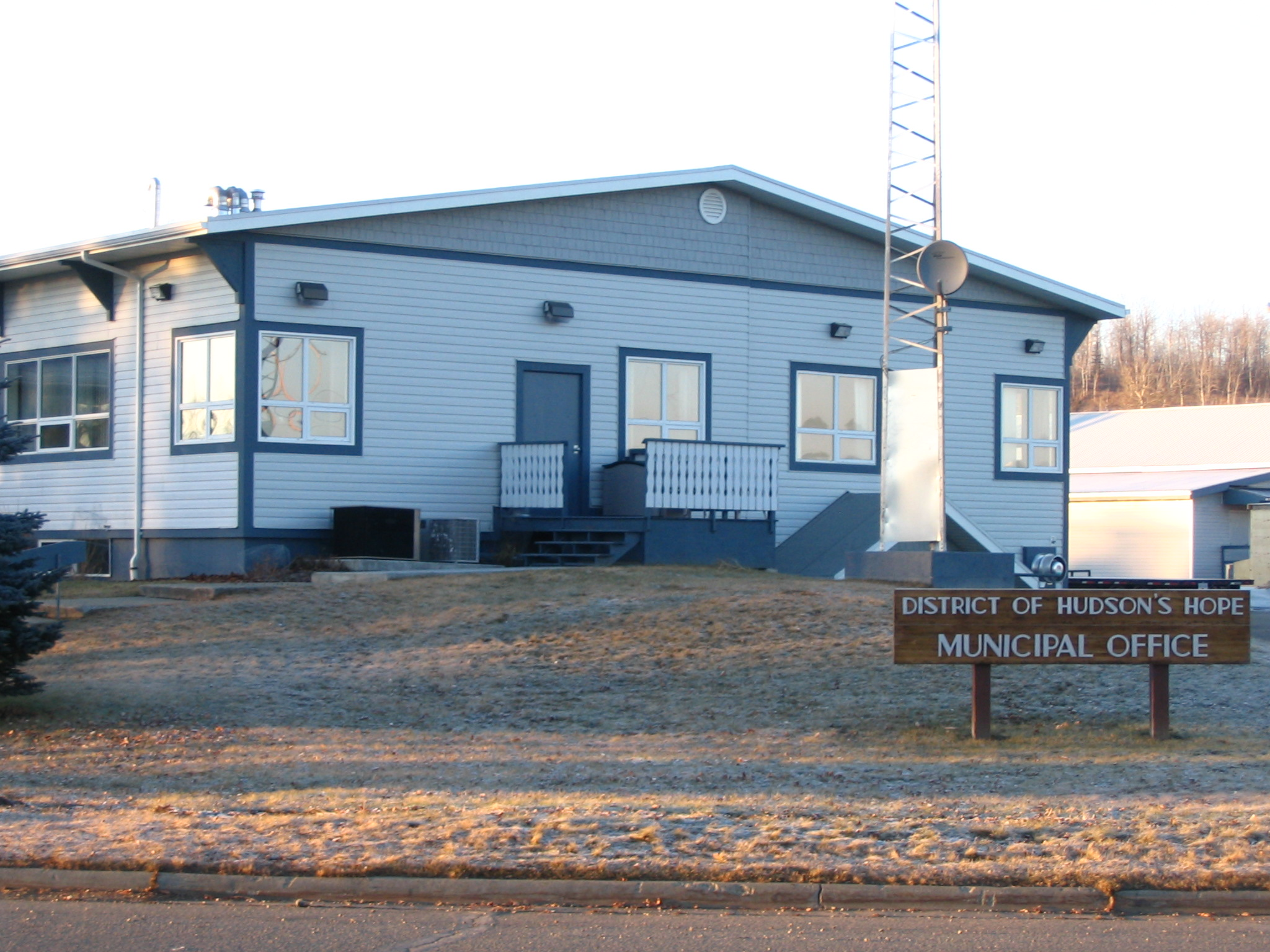 Hudson's Hope, British Columbia (town hall)